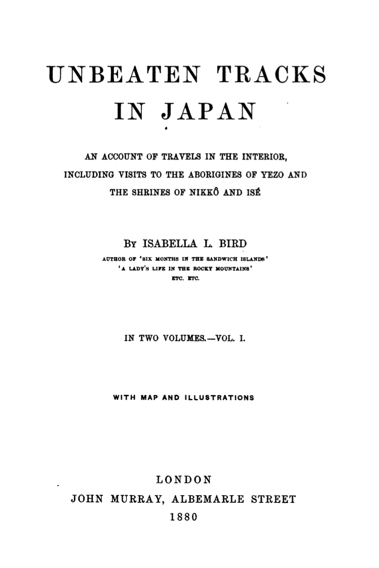 The title page for the book "Unbeaten Tracks in Japan" by Isabella Bird, first edition, published by John Murray of London, 1880.